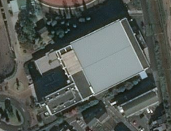 Anjō City Gymnasium